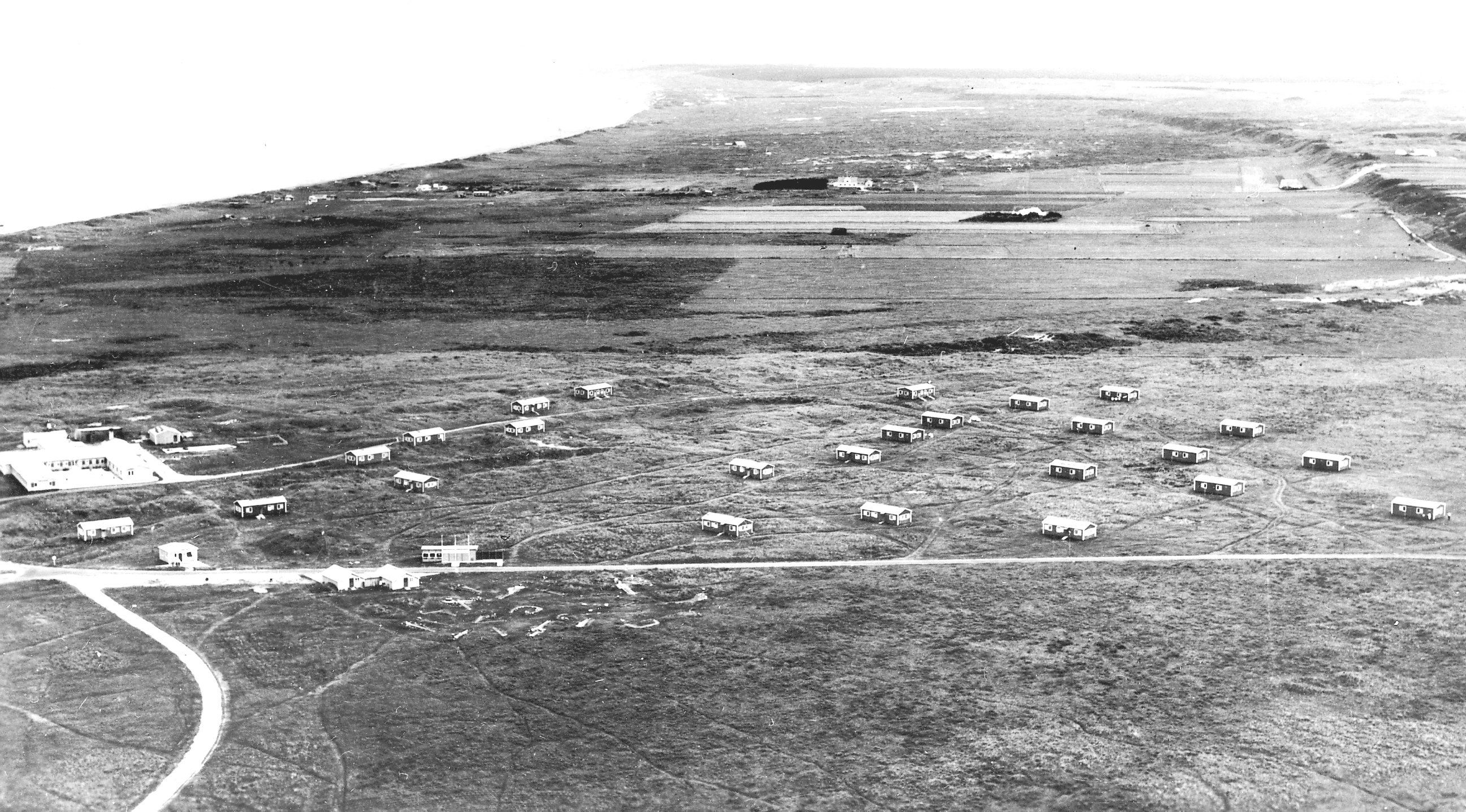 Skallerup, a refugee camp in Denmark, seen from south to north. The year is approx. 1946. The early stage of Skallerup Feriecenter seen in the foreground.